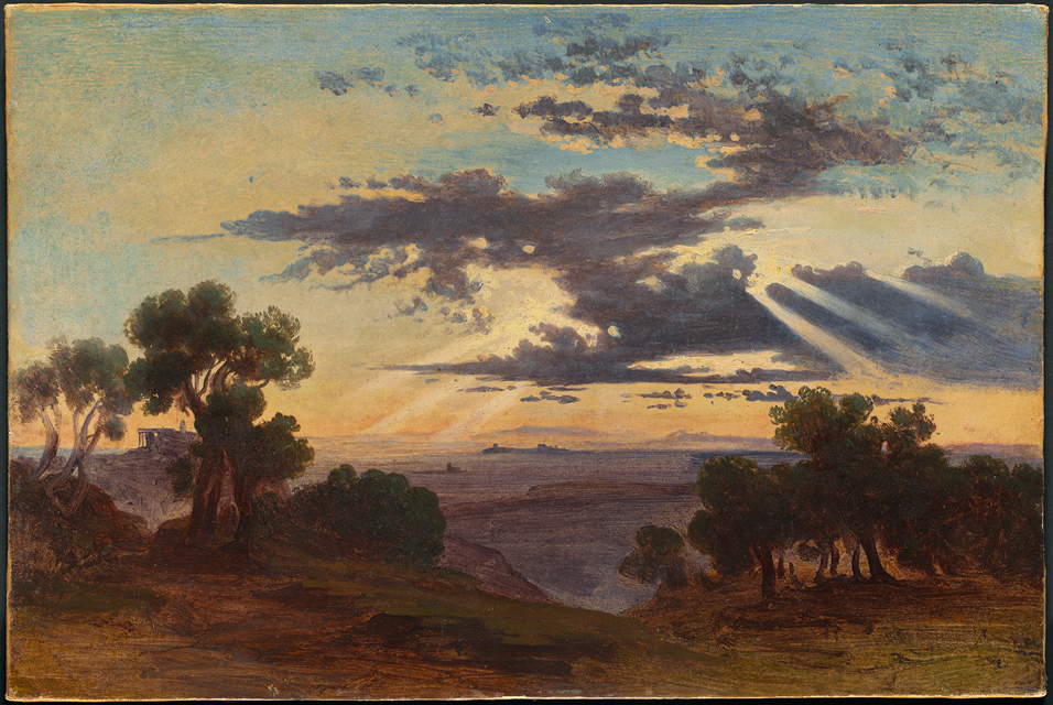 Sun Breaking through Clouds above the Roman Campagna by Johann Jakob Frey, 1844 or later. Oil on paper mounted on canvas, 290 x 440 mm.